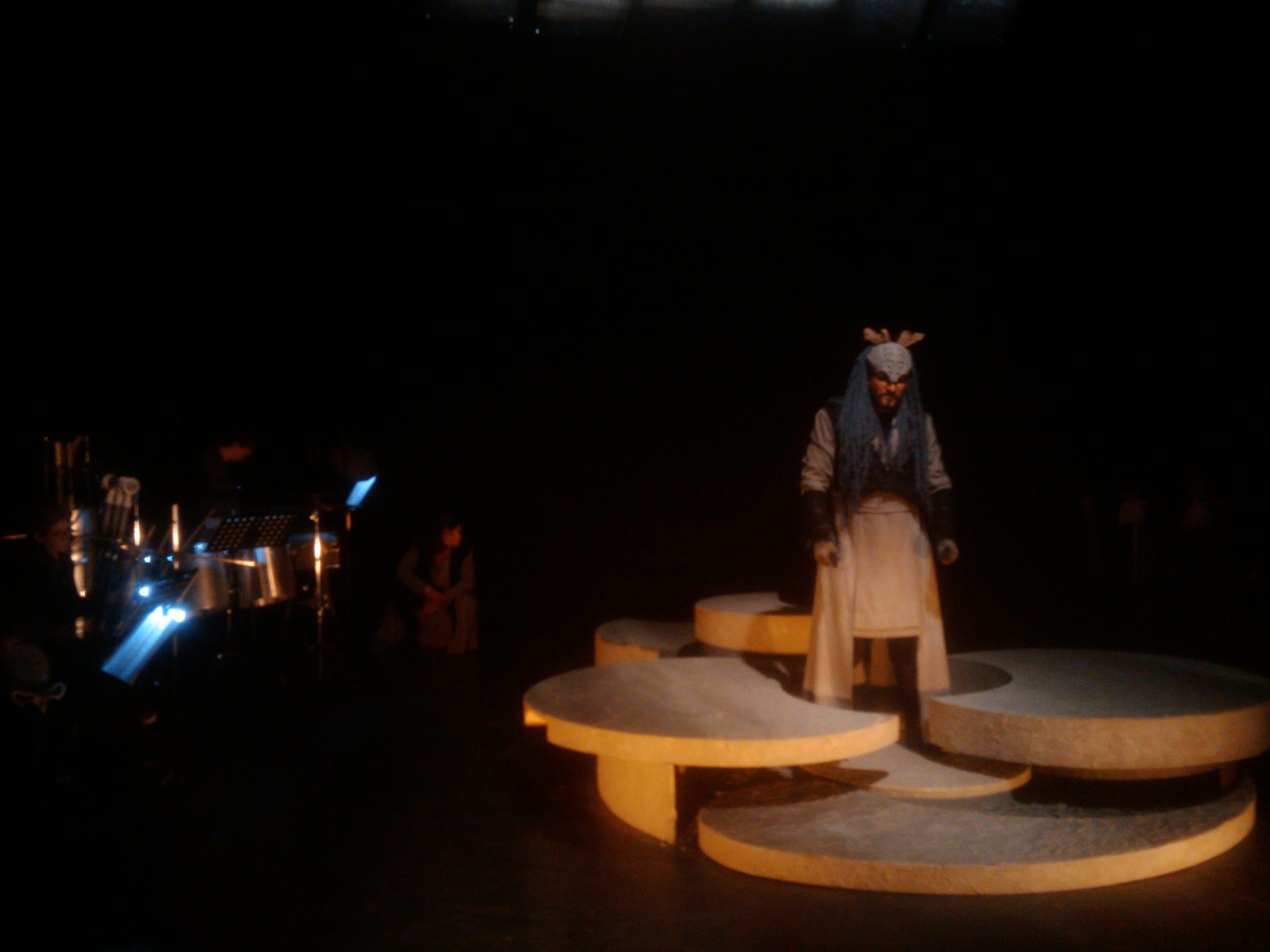 Scene from 'U' the opera, performed at the Zeebelt theatre in The Hague, The Netherlands on September 10, 2010